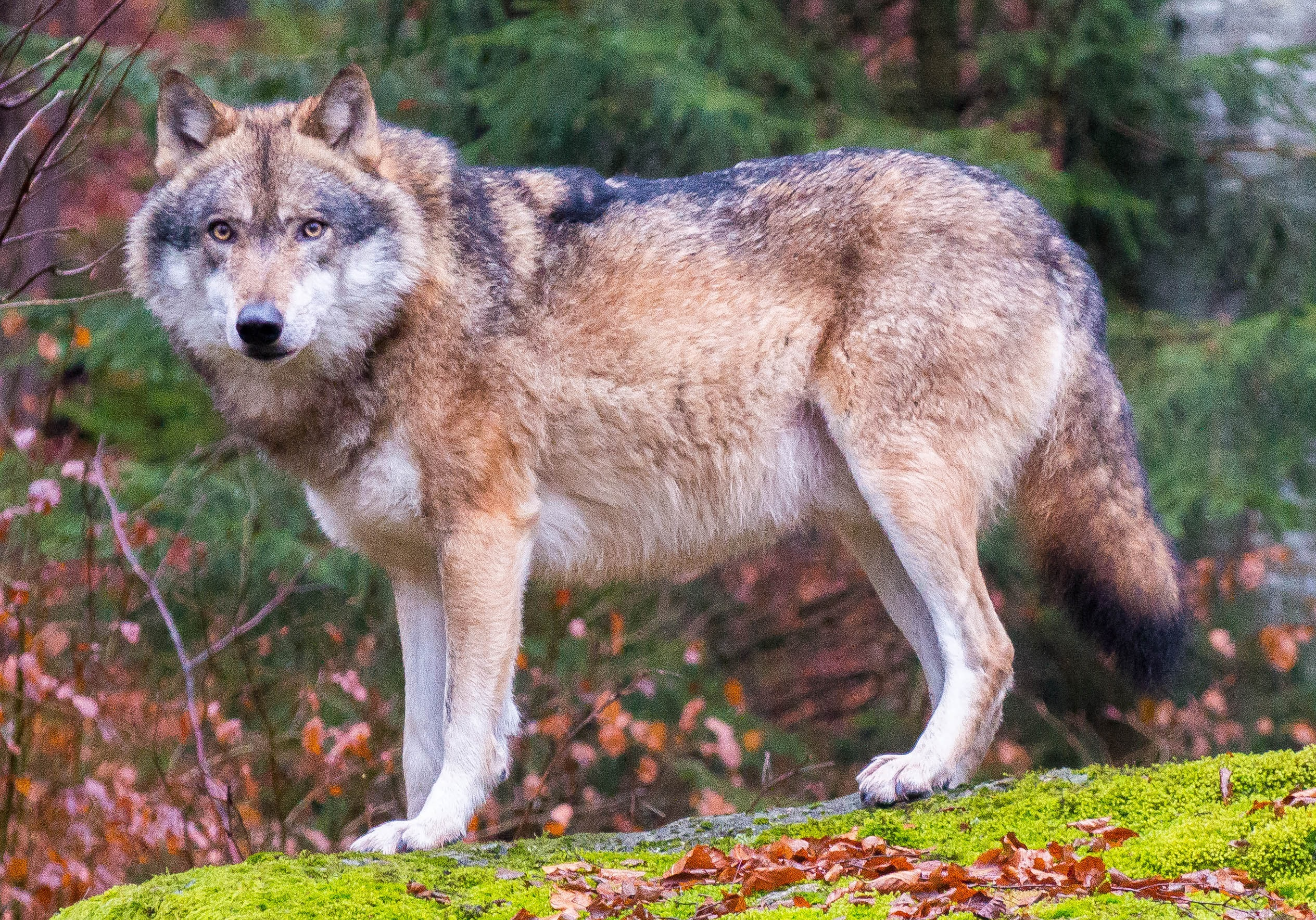 Grey wolf in Bavarian Forest National Park